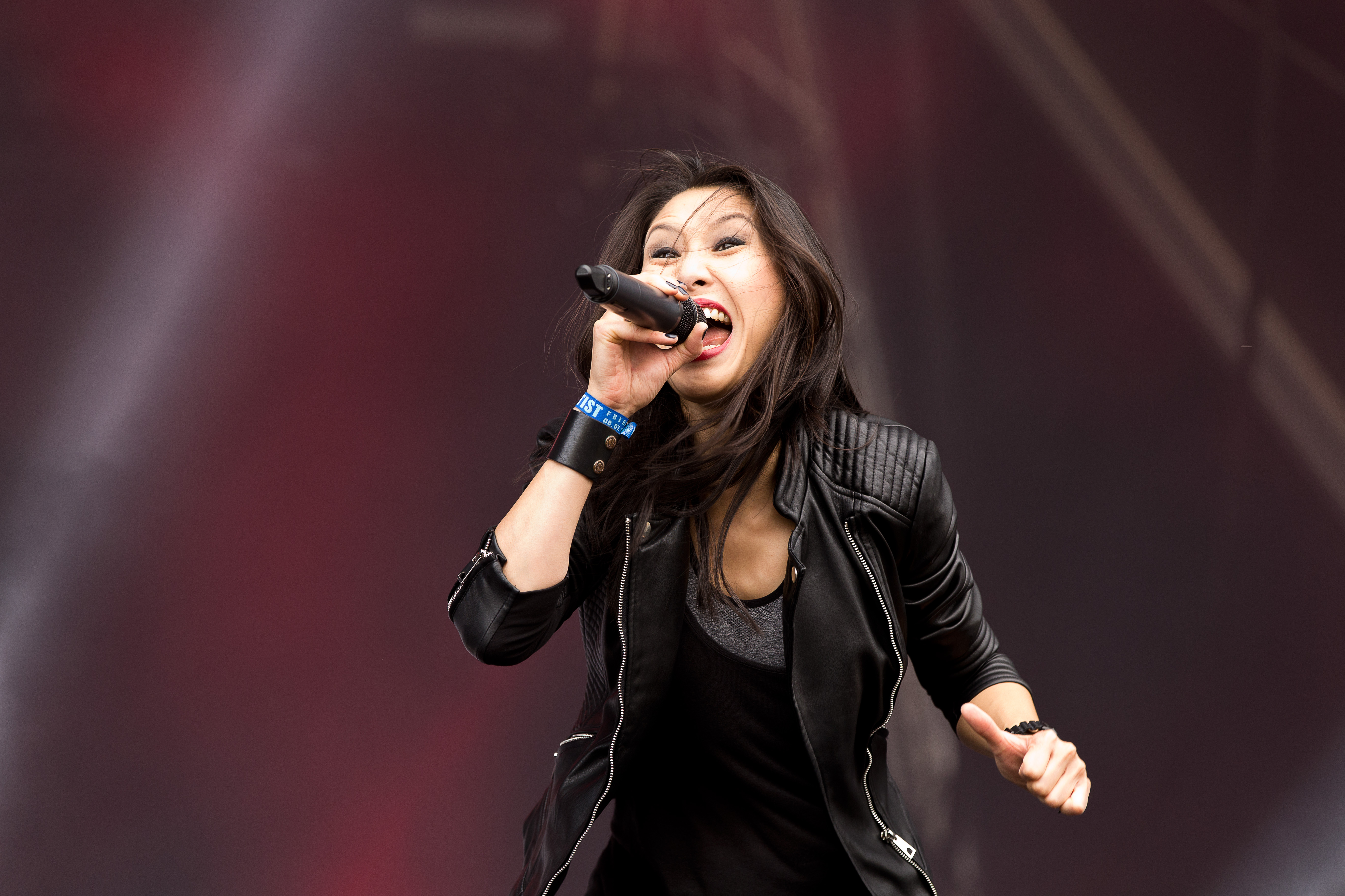 The German rock band And Then She Came at the Rockharz Open Air 2016 in Ballenstedt/Germany.